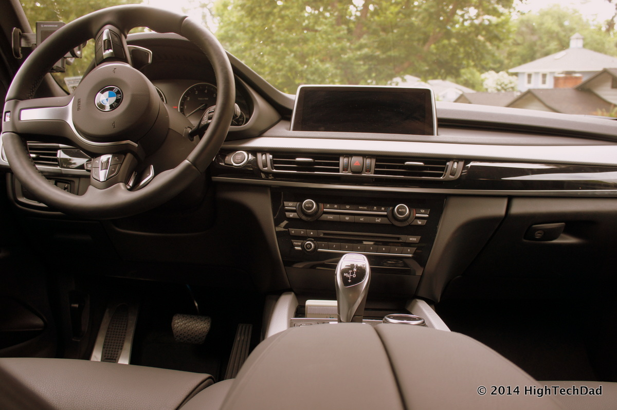 Photos from a 7-day test drive of the 2014 BMW X5 xDrive 35i. For more reviews, please visit or .